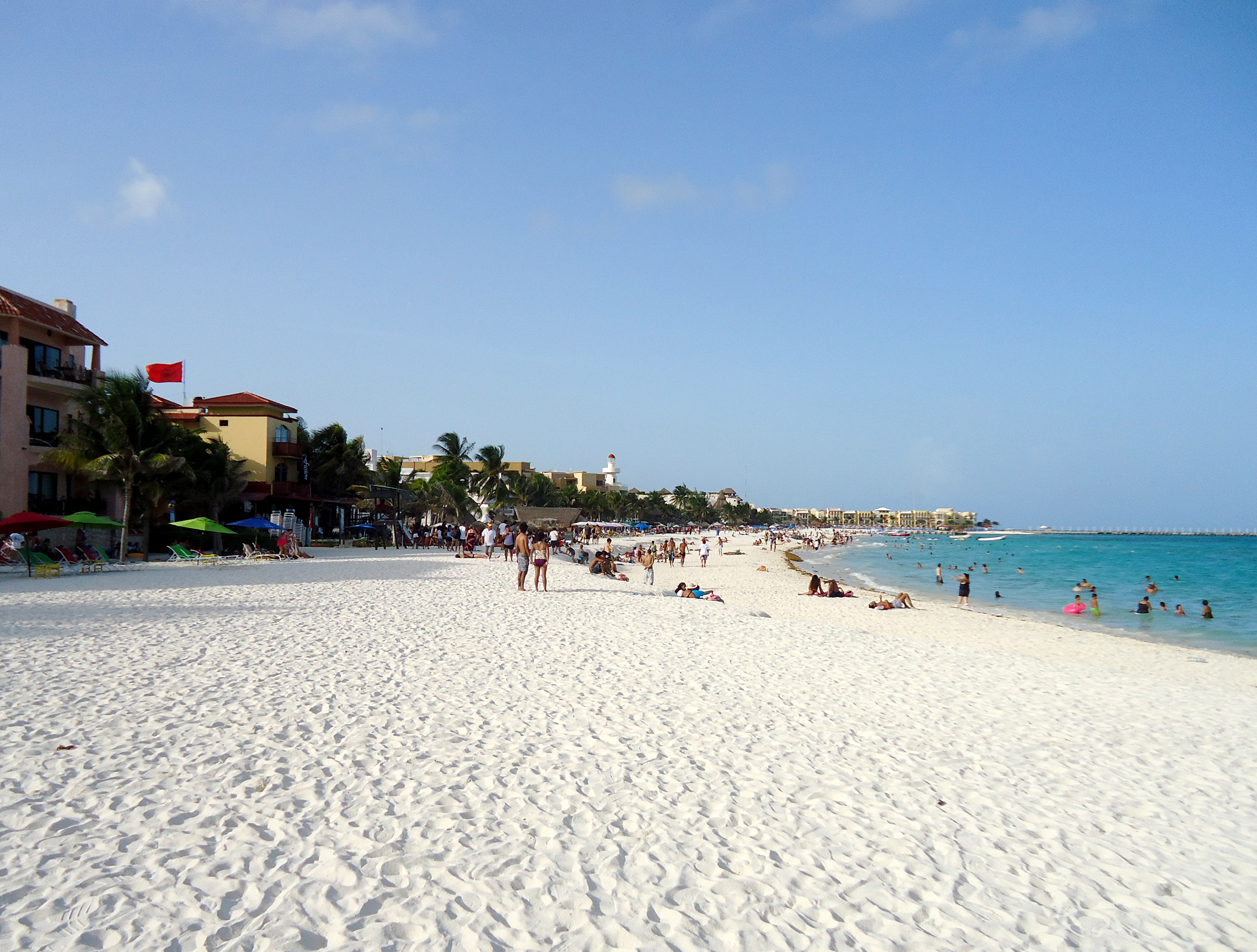 Beach in Playa del Carmen, Quintana Roo, Mexico